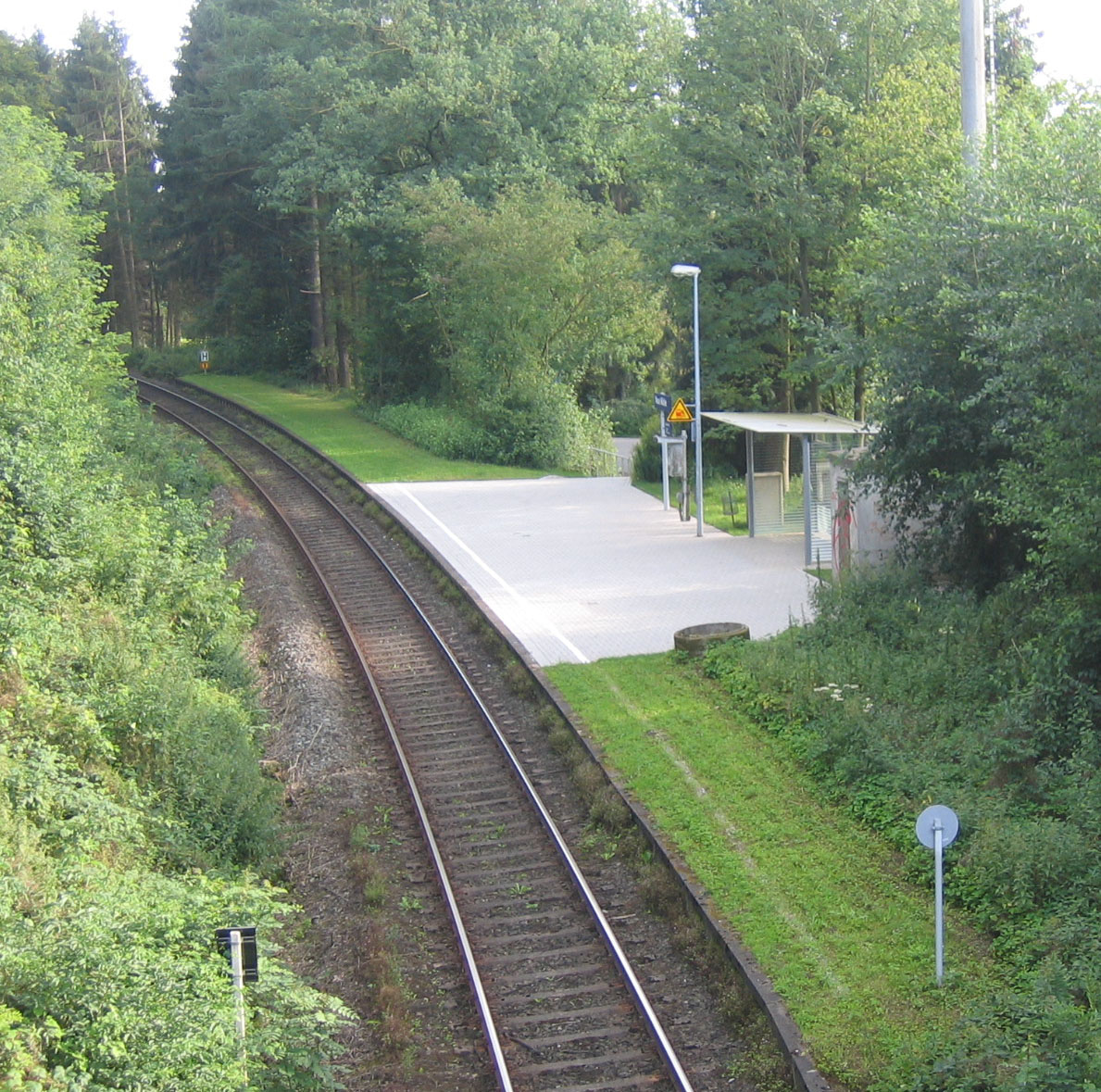 Train stop Neue-Mühle-Mesch in the town of Rödinghausen-Neue Mühle, Germany.